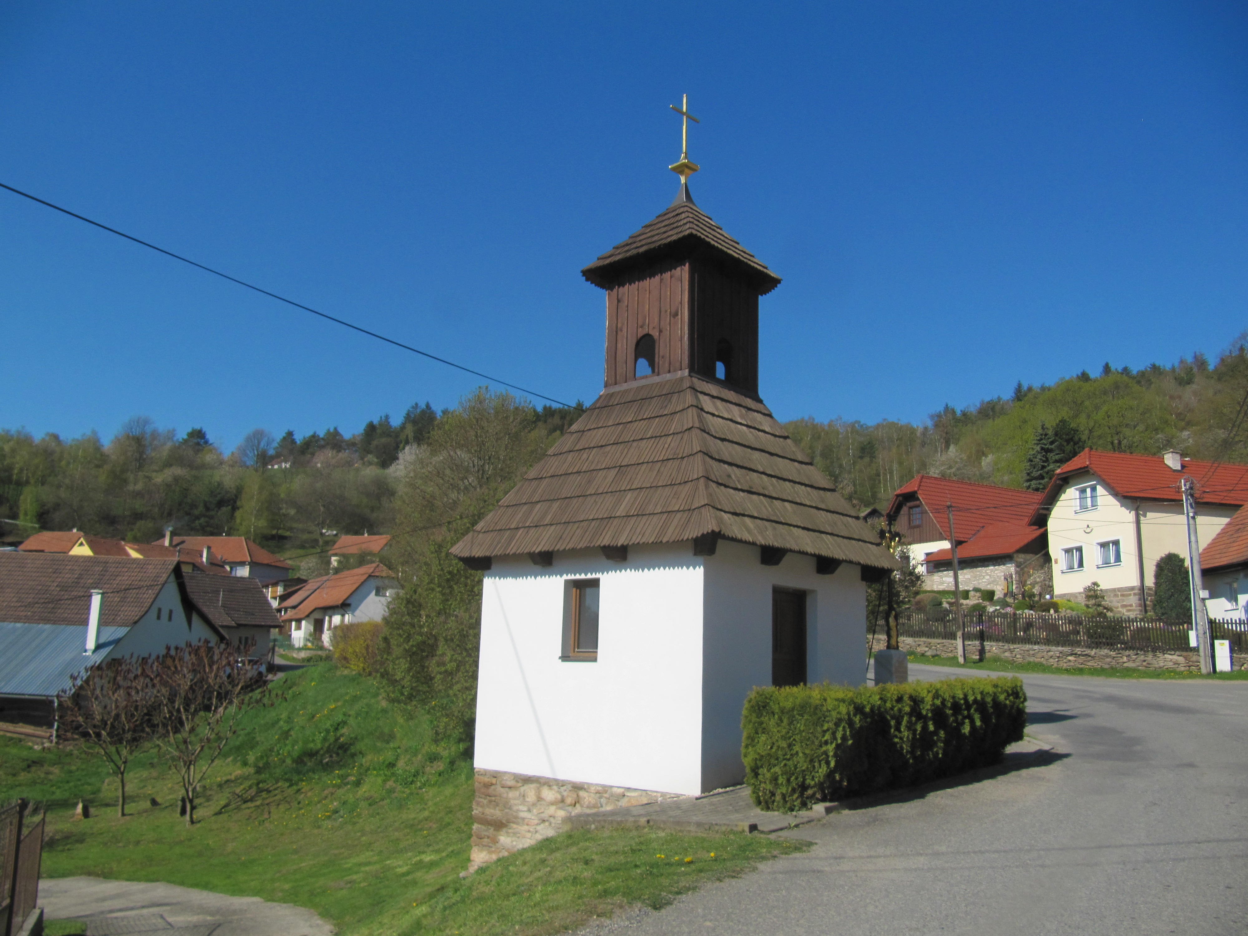 Ujčov, Žďár nad Sázavou District, Czechia, part Lískovec.